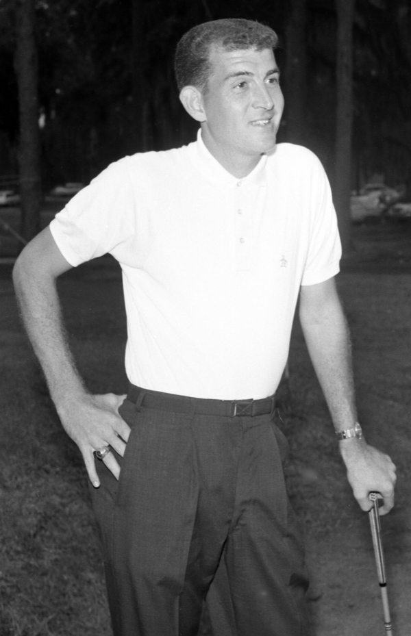 Pro golfer Hugh Royer participating in the Tallahassee Invitational Open golf tournament at the Capital City Country Club.